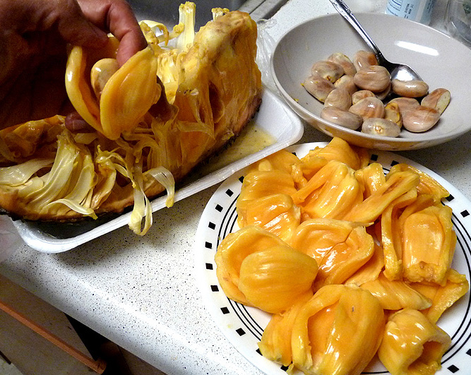 Extracting the jackfruit arils and separating the seeds from the sweet flesh.